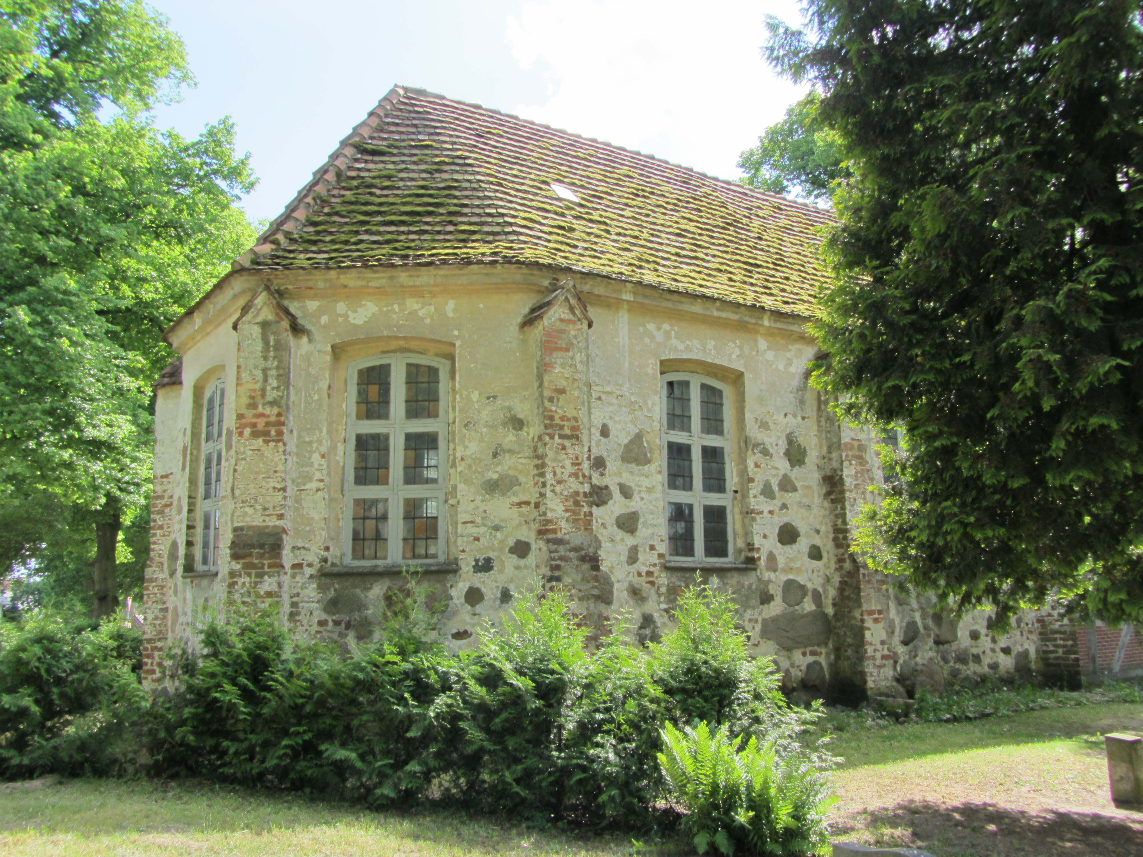 Church in Dütschow, district Ludwigslust-Parchim, Mecklenburg-Vorpommern, Germany